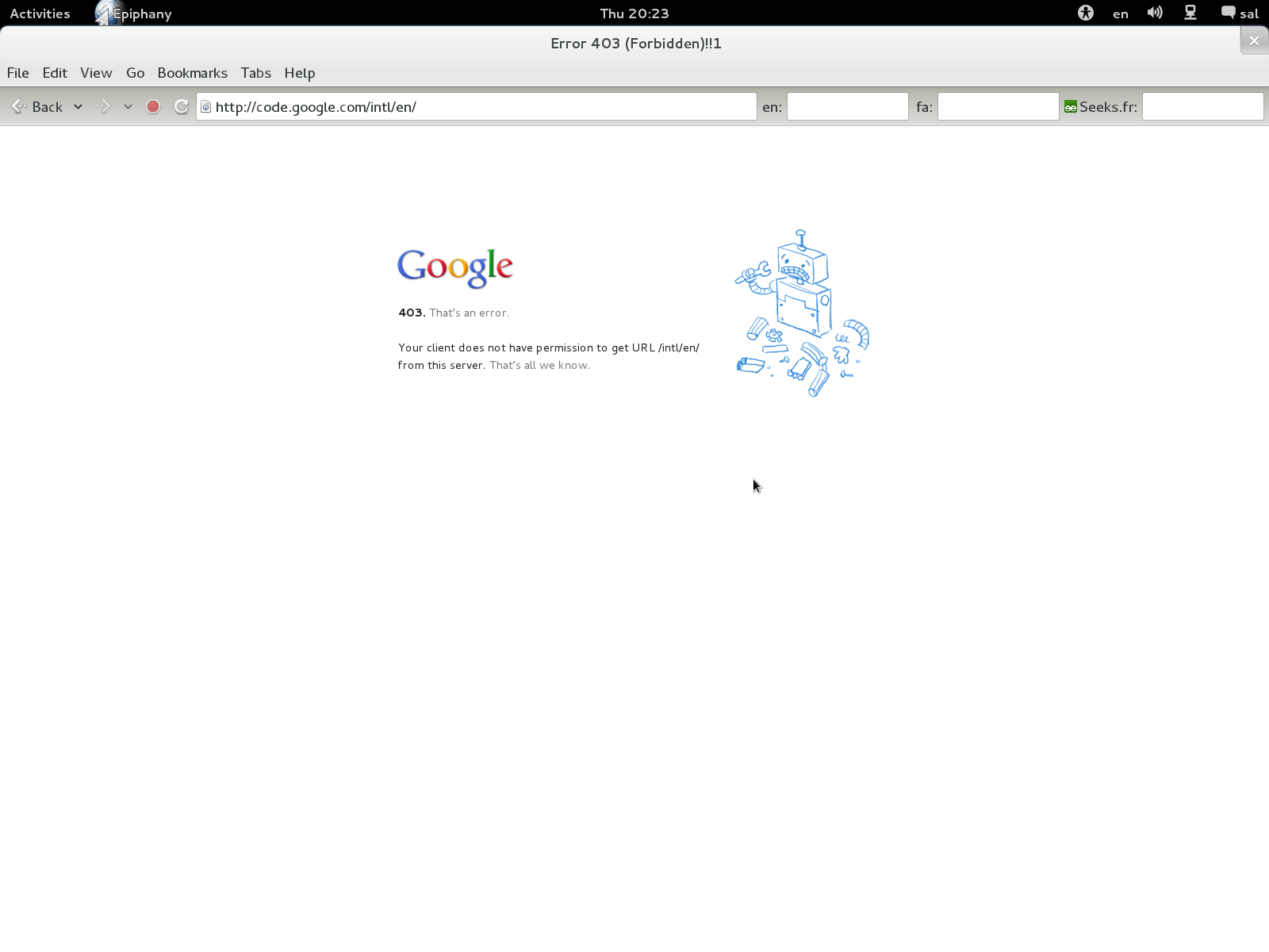 Error-message seen by someone attempting to access SourceForge from an ITAR-restricted country.